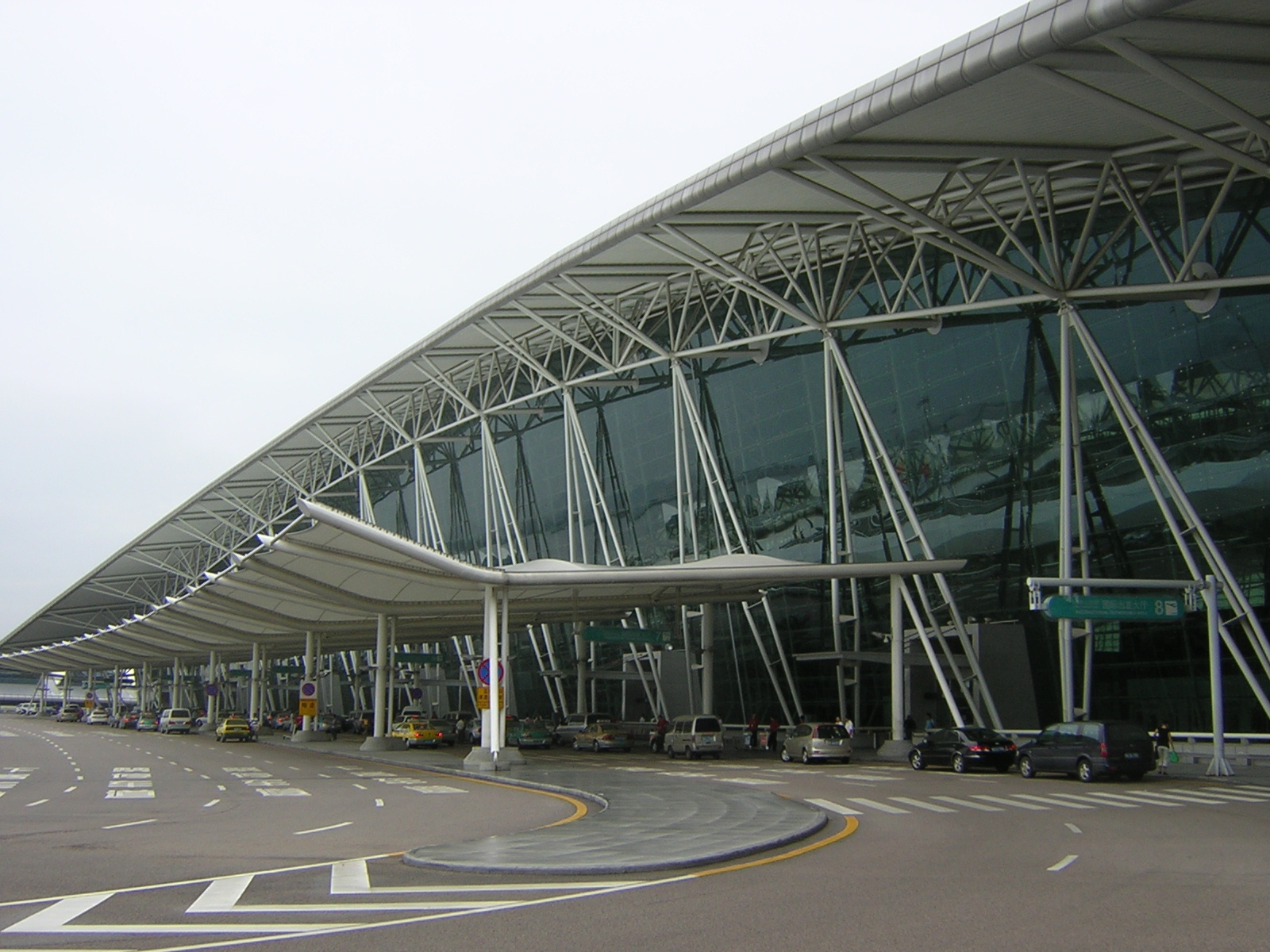 The terminal building at Guangzhou Baiyun Airport.